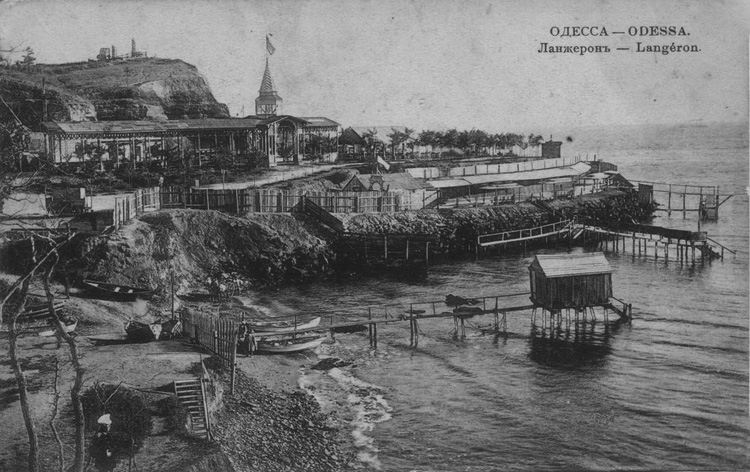 Langeron in Odessa Flickr data on 2011-08-13 Tags: Old pictures, Public Domain, Langeron, Odessa License: CC BY-SA 2.0 User: paukrus Ruslan